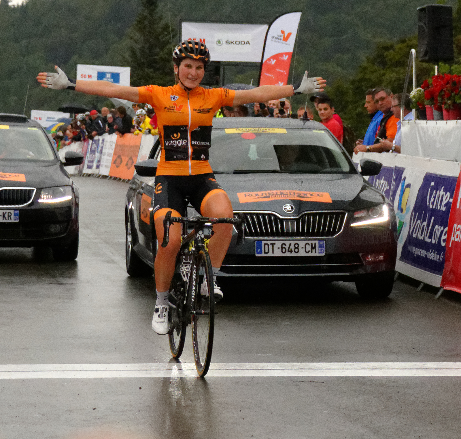 Personality rights warningAlthough this work is freely licensed or in the public domain, the person(s) shown may have rights that legally restrict certain re-uses unless those depicted consent to such uses. In these cases, a model release or other evidence of consent could protect you from infringement claims.